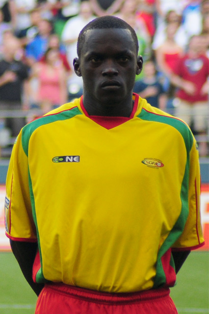 Photo of soccer player, Cassim Langaigne.